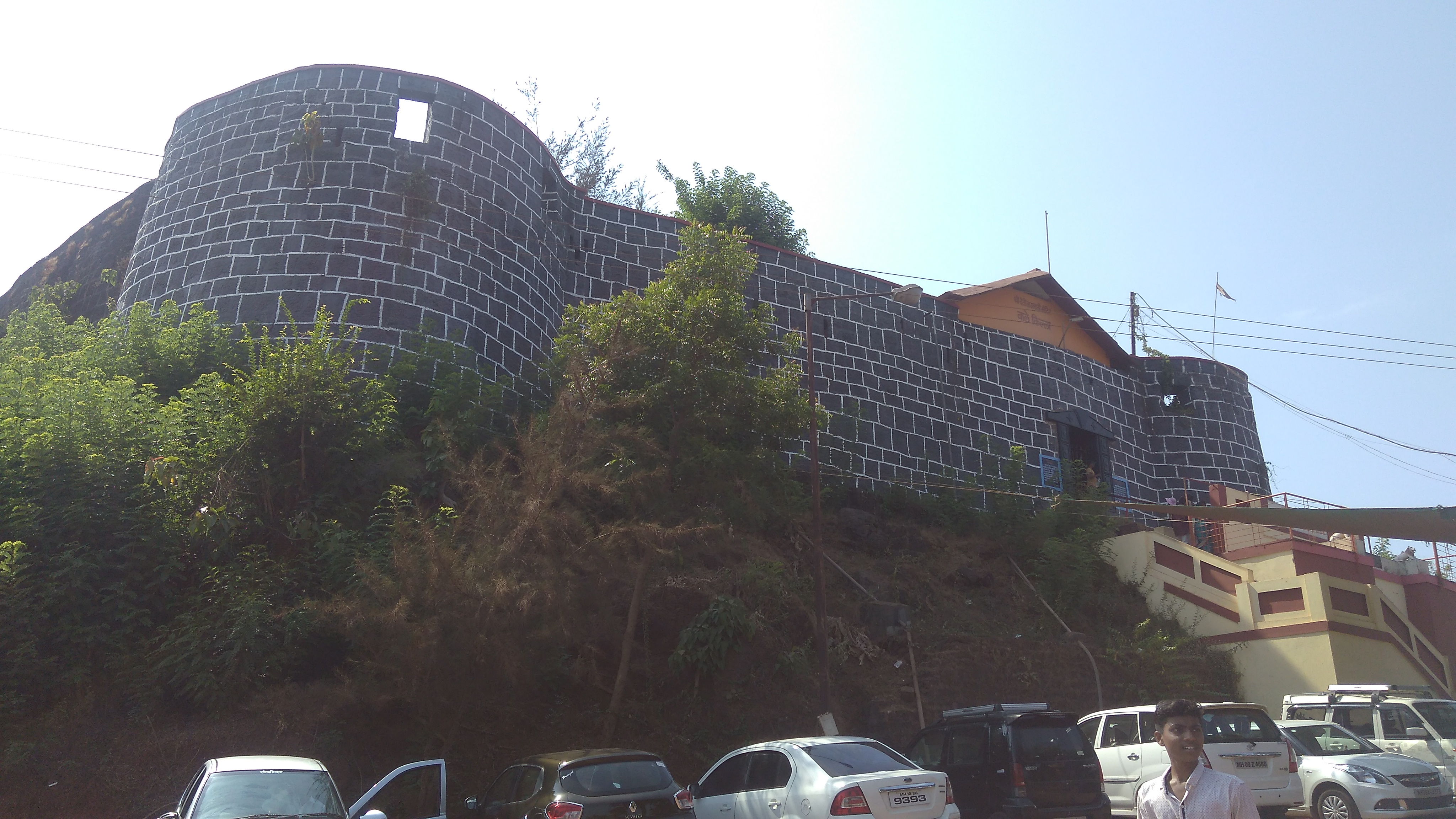 It is fort and also temple of Lord MahaLakshmi